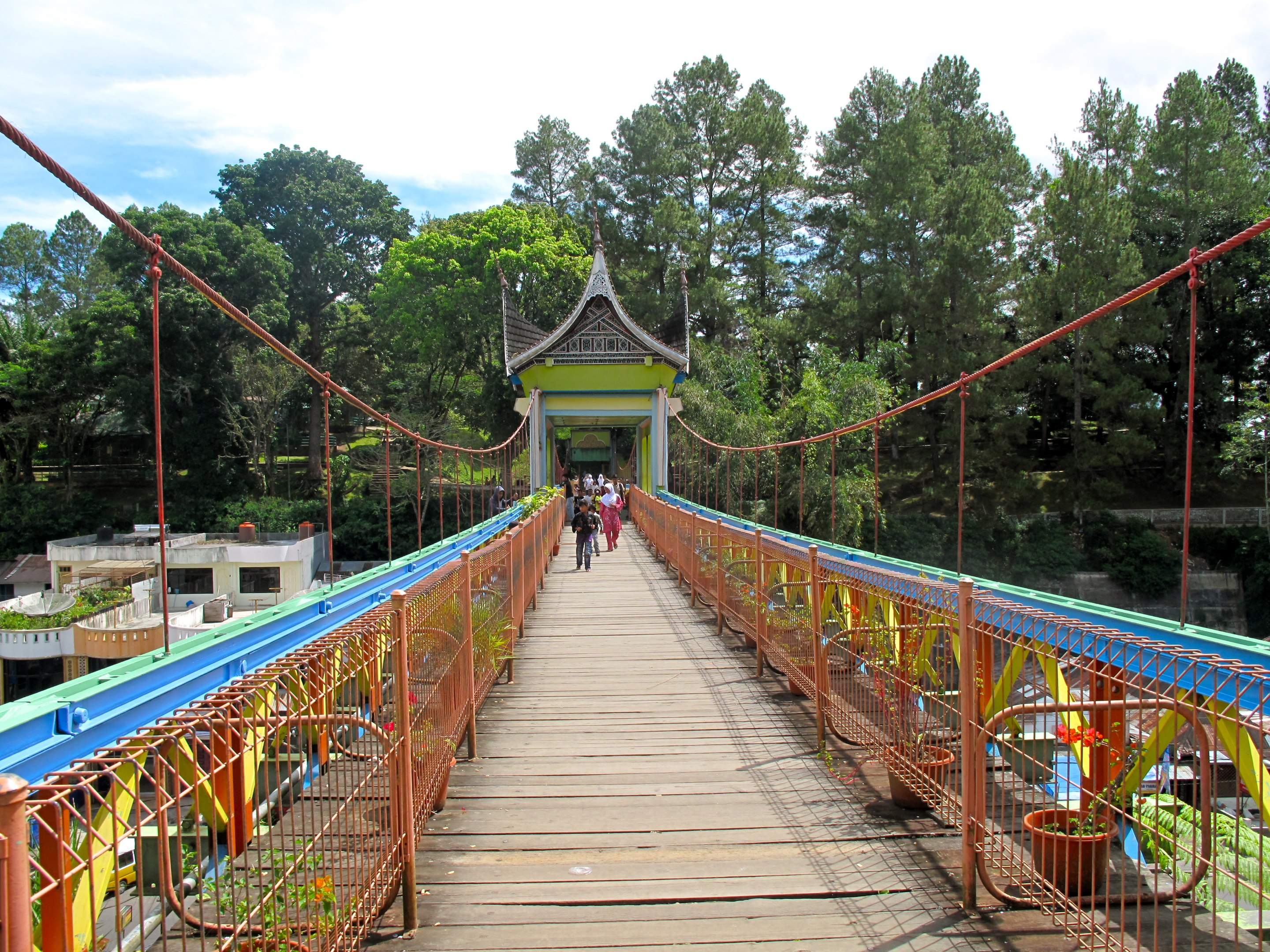 Limpapeh Bridge, the bridge going from the zoo and traditional houses to the Fort de Cock